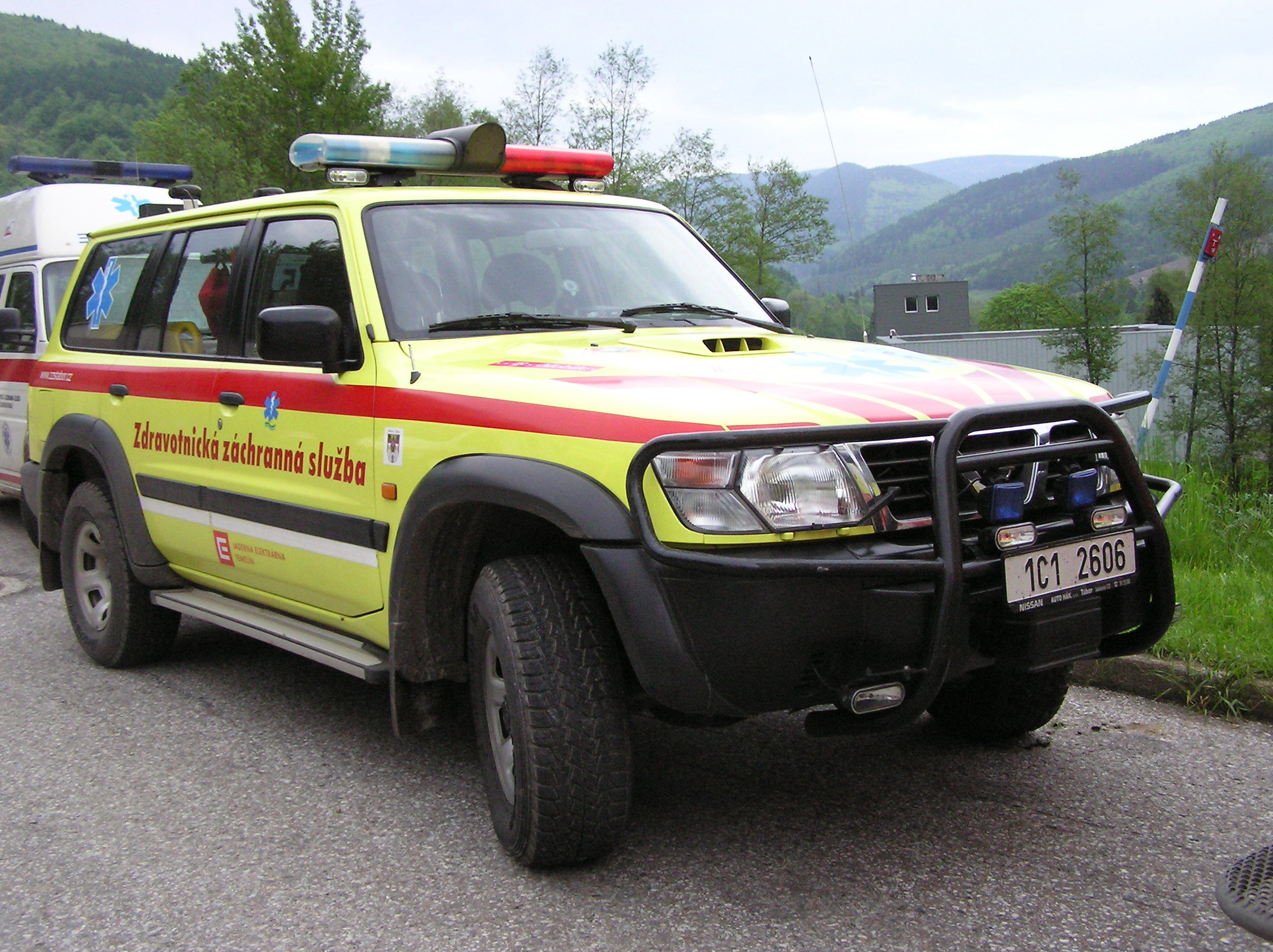 Ambulance vehicle first responder unit (Rendez-Vous) of the Emergency Medical Services of South Bohemian Region, Czech Republic. Photo was taken during the international competition Rallye Rejvíz 2010 in Kouty nad Desnou, Czech Republic Česky: Sanitní vozidlo pro systém Rendez-Vous Zdravotnické záchranné služby Jihočeského kraje